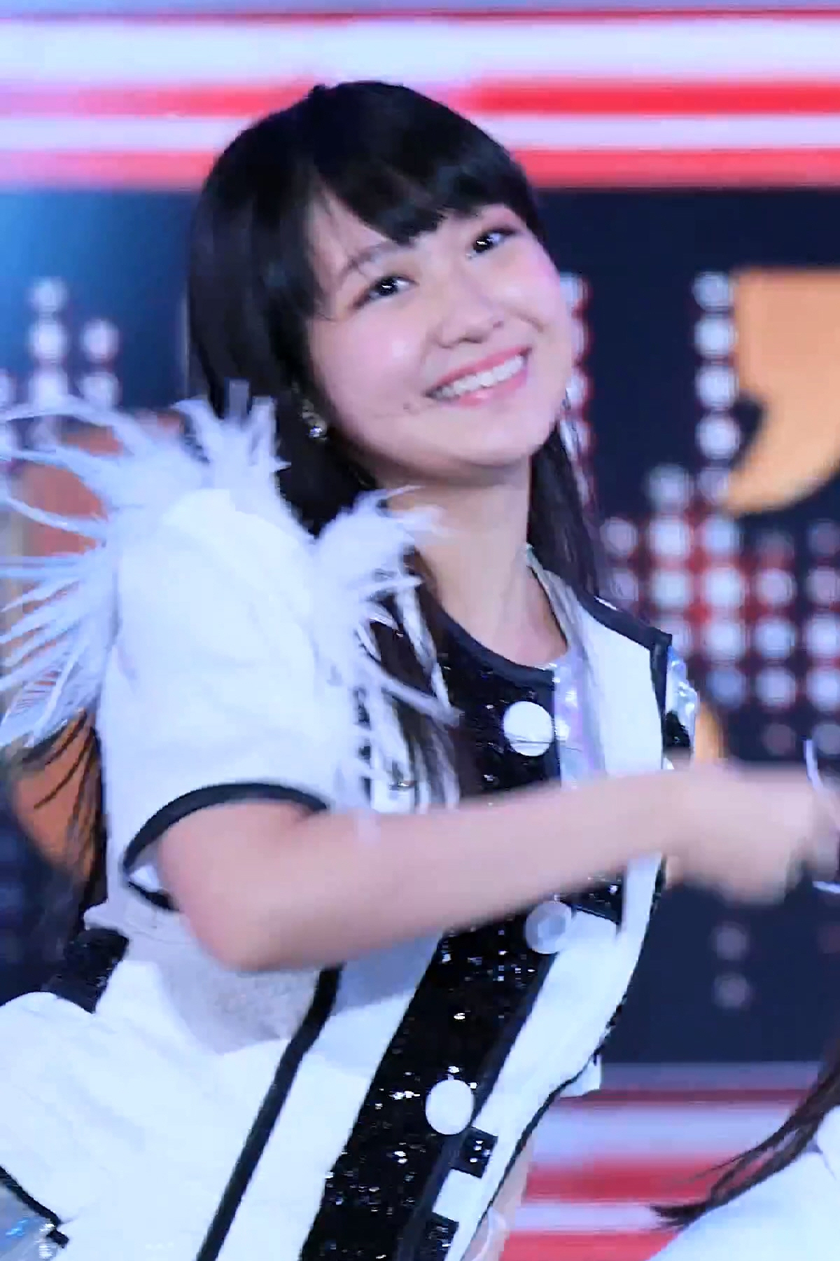 161006 AMN 빅 콘서트 - 후쿠무라 미즈키 우타카다 새터데이나이트 직캠 by DaftTaengk (Miki Nogaka)